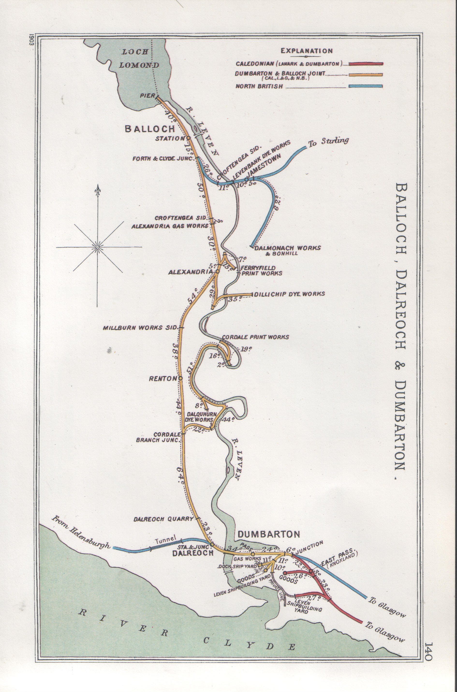 Pre Grouping railway junction around Balloch, Dalreoch & Dumbarton